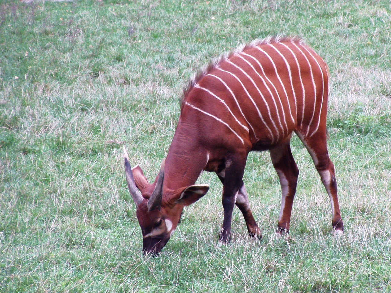 Tragelaphus eurycerus isaaci (Prague Zoo)